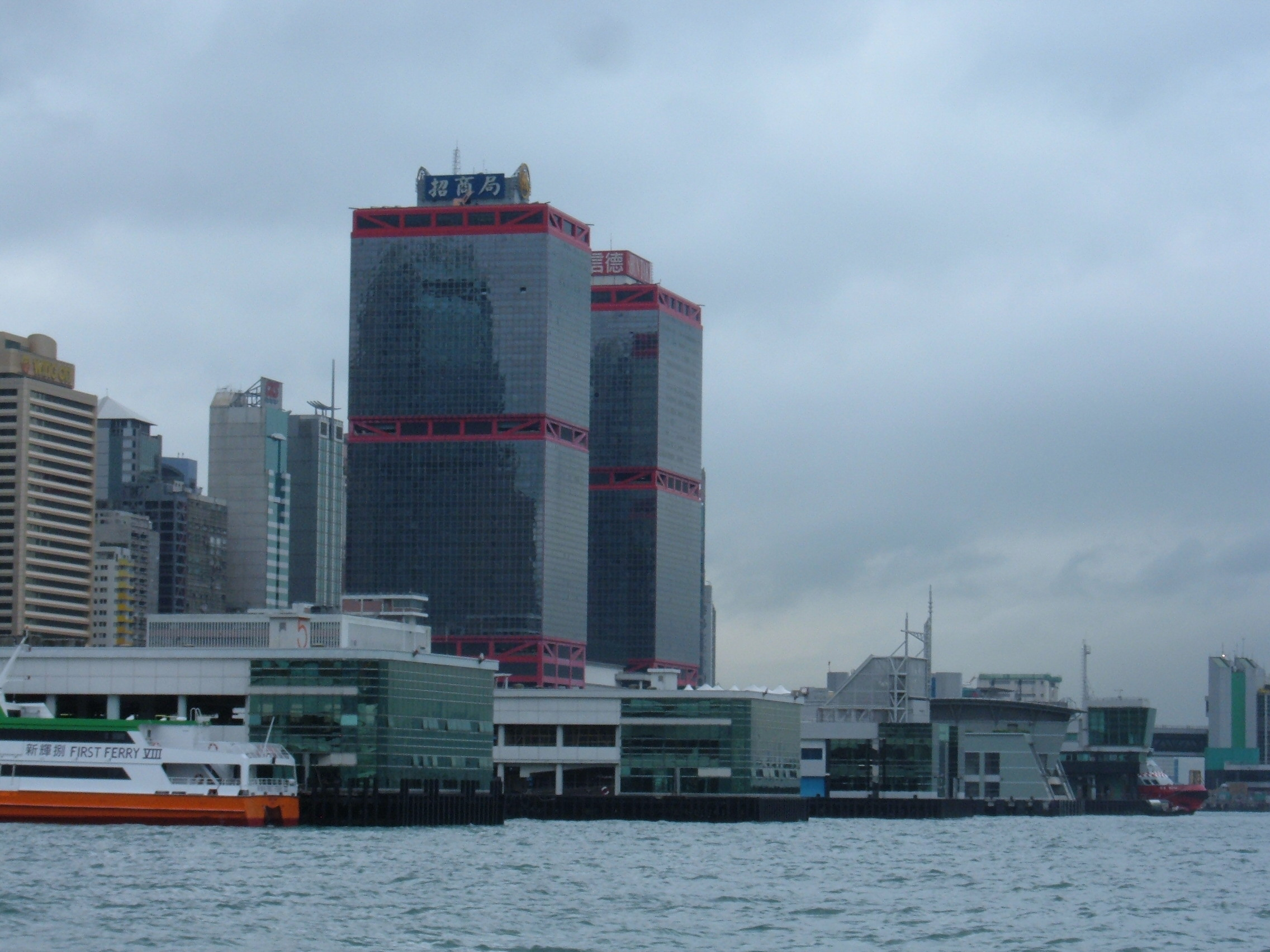 The Kowloon side of Victoria Harbour as seen from a Star Ferry crossing the Harbor.